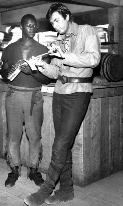 Photo of Brock Peters and Fess Parker from the television program Daniel Boone. This episode is called "Pompey".